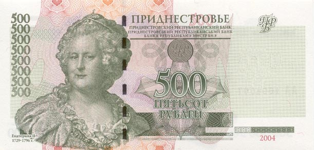 500 Transnistrian ruble